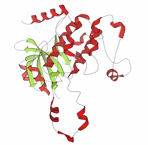 CRYSTAL STRUCTURE OF HUMAN CHK2, KINASE DOMAIN, RESIDUES 210-531